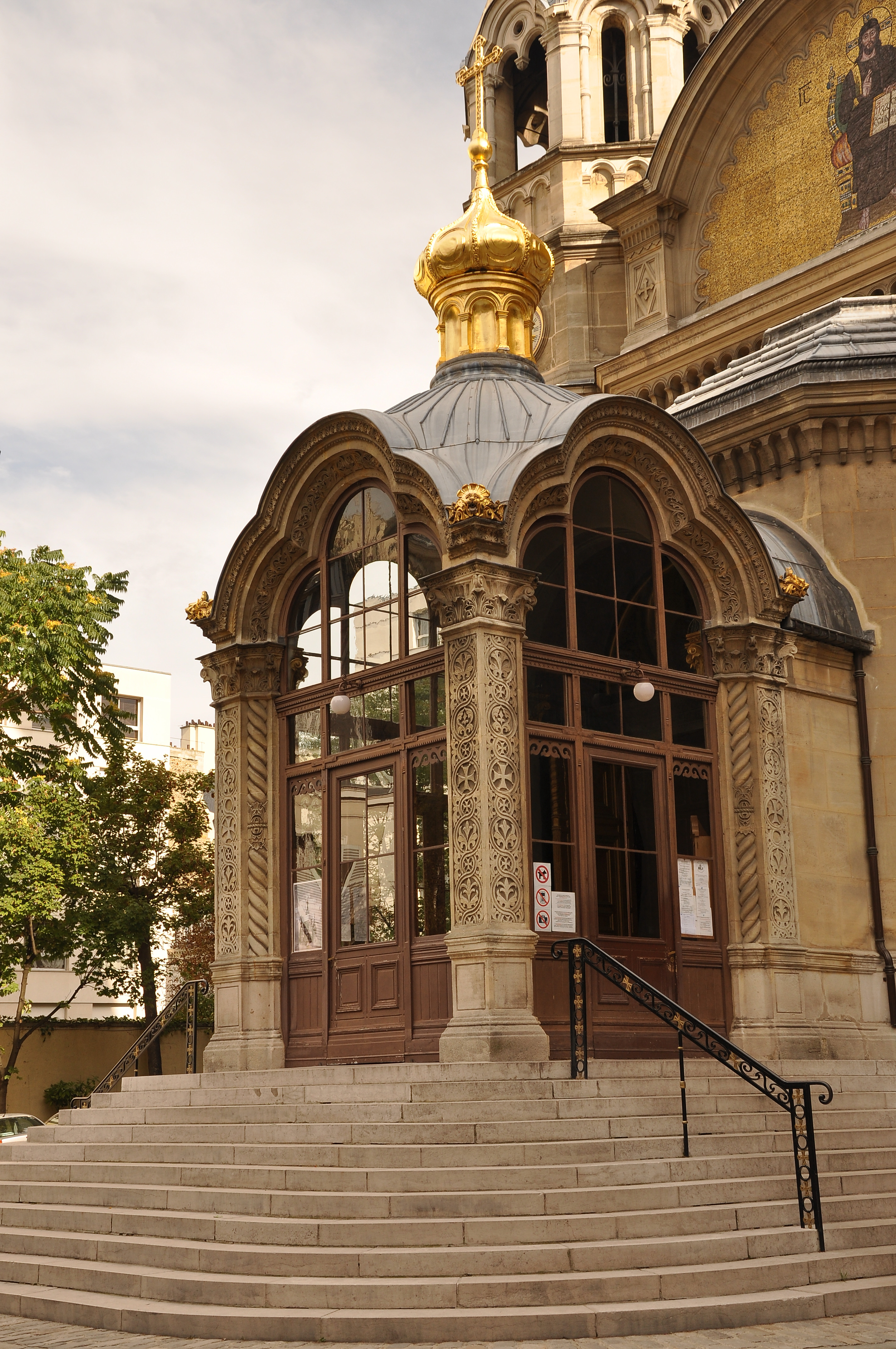 Saint Alexander Nevsky orthodox Cathedral located in the 8th arrondissement of Paris, France.